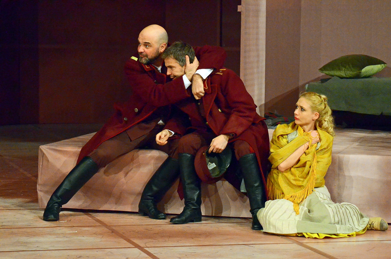 "Migrations " by Miloš Crnjanski; directed by Vida Ognjenović; Drama of the Serbian National Theatre, Novi Sad, 2011/12; Nenad Pećinar, Jugoslav Krajnov, Sanja Ristić Krajnov Srpski (latinica): "Seobe" Miloša Crnjanskog u režiji Vide Ognjenović; Drama SNP-a, Novi Sad, 2011/12; Nenad Pećinar, Jugoslav Krajnov, Sanja Ristić Krajnov Српски (ћирилица): "Сеобе" Милоша Црњанског у режији Виде Огњеновић; Драма СНП-а, Нови Сад, 2011/12; Ненад Пећинар, Југослав Крајнов, Сања Ристић Крајнов